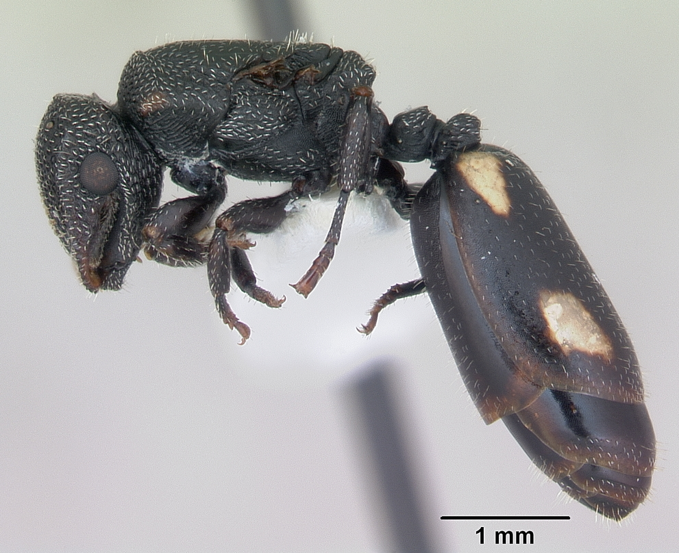 Profile view of ant Cephalotes fiebrigi specimen casent0173678.